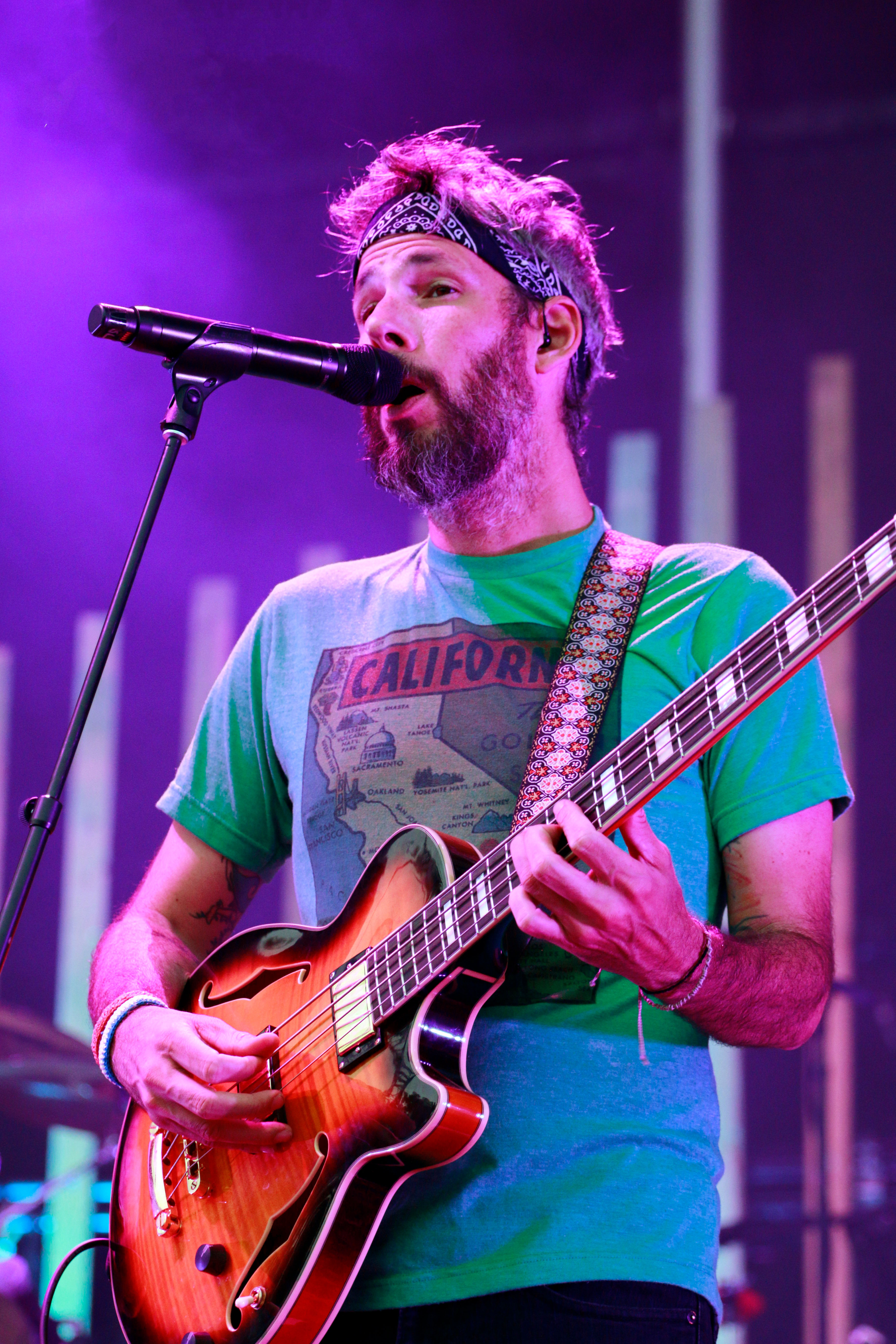 Matthew Embree Plays Bass During Dispatch Location 12 Tour in 2017 at Forest Hills Stadium in NYC